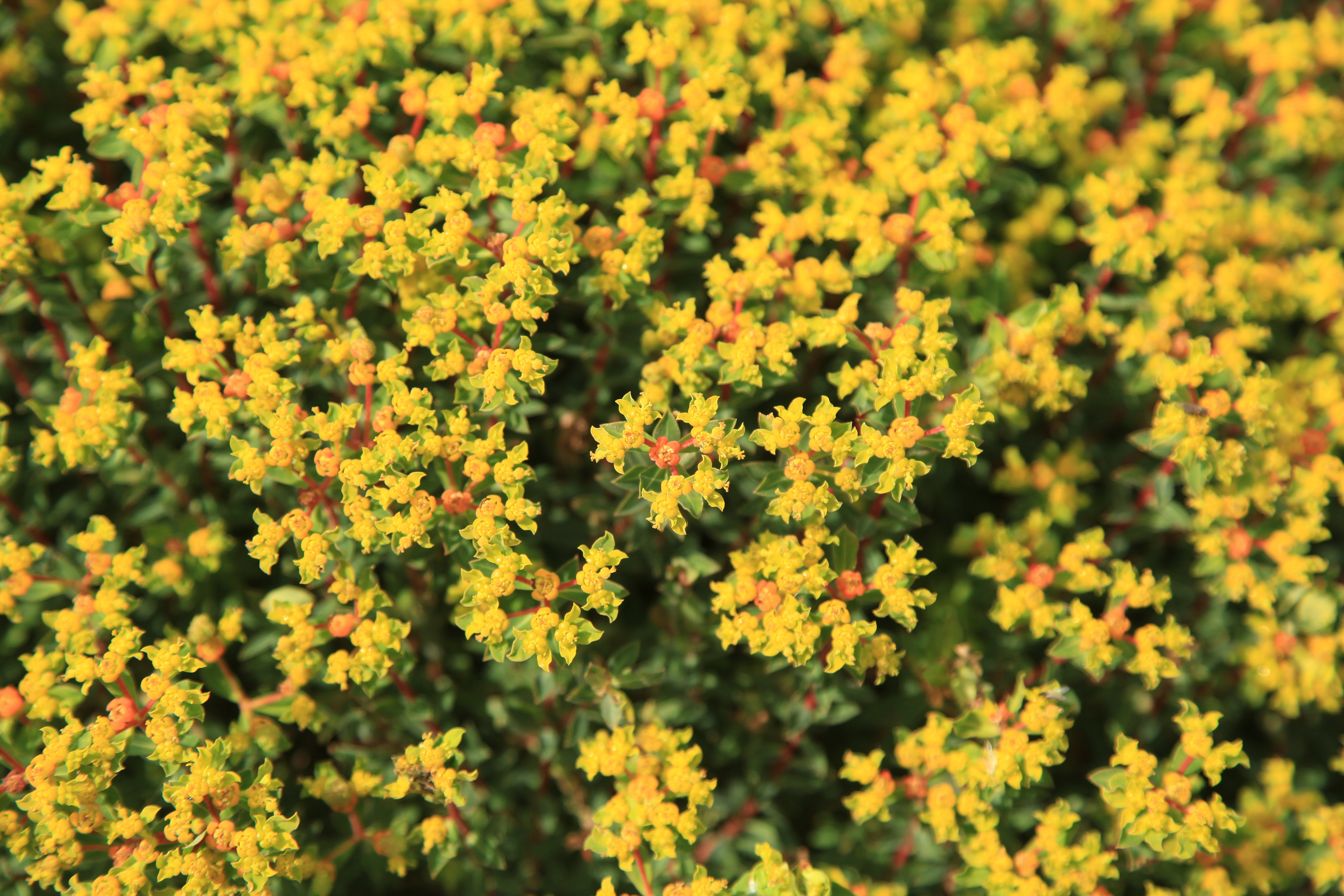 Euphorbia melitensis growing at Triq tad-Dahar in Mellieħa, Malta